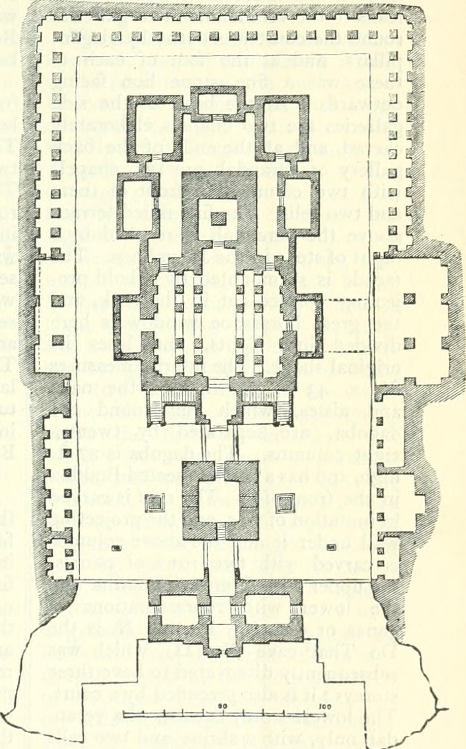 Identifier: handbooktravelle00john Title: A handbook for travellers in India, Burma, and Ceylon . Year: 1911 (1910s) Authors: John Murray (Firm) Subjects: India -- Guidebooks Burma -- Guidebooks Sri Lanka -- Guidebooks Publisher: London : J. Murray Calcutta : Thacker, Spink, & Co. Text Appearing Before Image: the goddess Saraswati on the S. wallof the antechamber deserves notice.Beyond it is yet a third hall measur-ing 27 ft. b)- 29 ft., wi;h three cells onthe E. and N. sides. No. 9 lies inthe N.W. angle beyond the thirdhall, and is reached from the centralhall of No. 6 ; it has a well-carvedfafade. No. 7, to which the stairs in Text Appearing After Image: The Mahawara Dherwara Cave. arrangement it has been conjecturedthat this cave was a Hall of Assembly.No. 6, to the N. of No. 5, is reachedthrough a lower hall with three cellson the E. side; it measures 26^ ft.by 43 ft., and has an antechamberand shrine at the back of it, theformer richly carved and the lattercontaining a large seated Buddha.The figure on a stone at the foot of The Kailasa Temple. the first hall of No. 6 lead, is a largevihara, 51^ ft. by 43^ ft., supportedby four columns only. No. 8 isentered from this, and is a hallmeasuring 28 ft. by 25 ft., with threecells on the north side, a shrinewith a passage round it, and a seatedimage of Buddha in it, and a smallerhall on the W. side. On the face ofthe rock by this is a group of the 76 ROUTE 6. MANMAR TO SECUNDERABAD India child Buddha with his mother andfather. The next excavation, No. 10,is the only Chaitya or chapel cave ofthe group, and lies some way to theN. It is known as the Viswakamaor Carpenters cave, and is consid